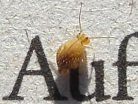 Some collembole, from a meadow in Cologne, Germany. Letters are normal newspaper text. If somebody wants to donate a Canon EOS 20D or better, please call! ;) Frans Janssens from identified this as Order Symphypleona, possibly Family Bourletiellidae.